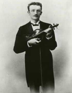 The Minnesota Orchestra's first conductor, Emil Oberhoffer, pictured 1900 - 1905.